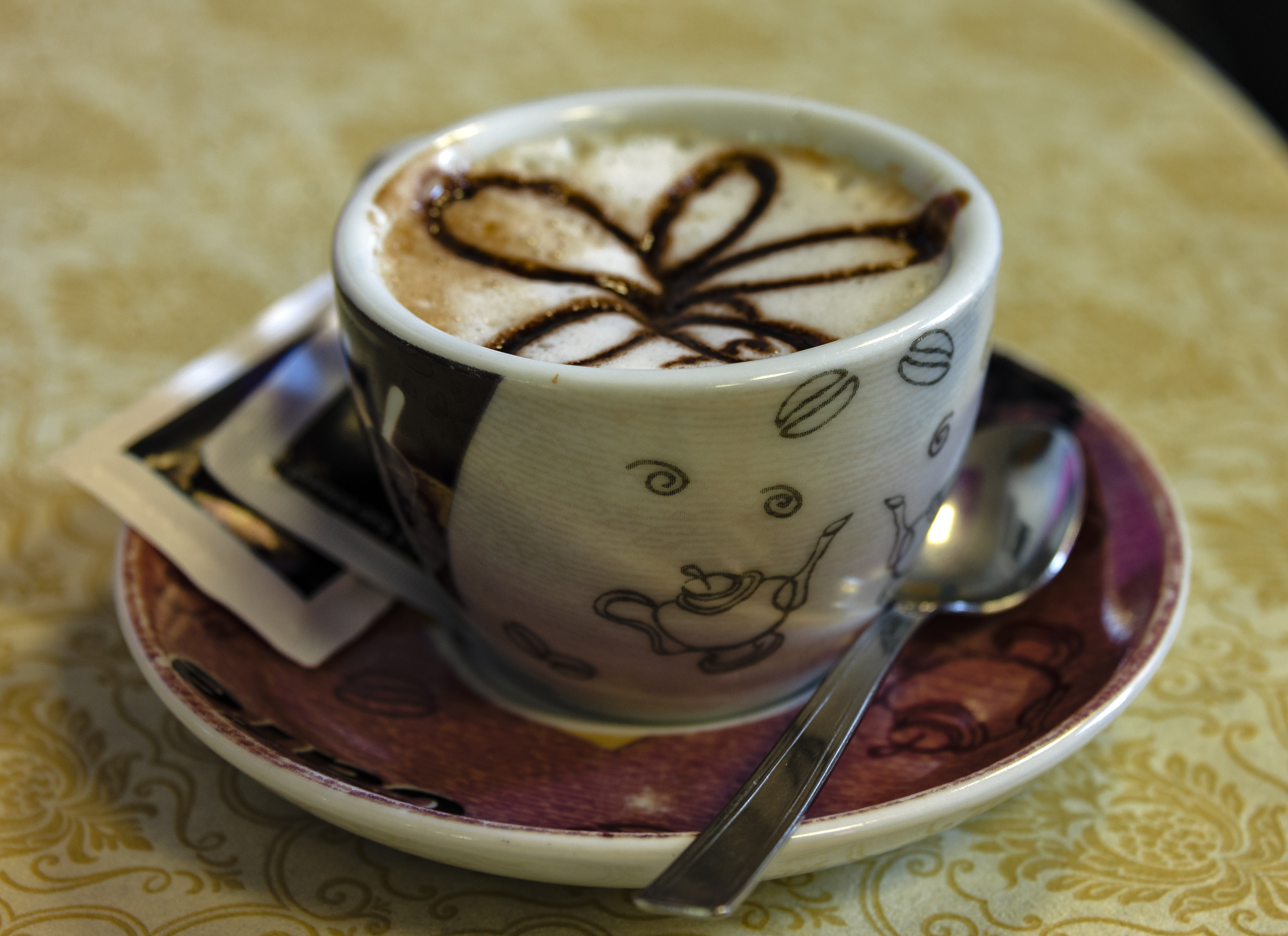 A cappuccino prepared Italian style, as a breakfast drink, in a small cup with chocolate sauce on the frothed milk, served with breakfast at Wikimania 2016 in Esino Lario